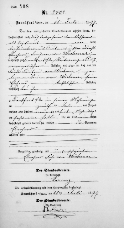 Birth certificate of the paramilitary acitivist Eberhard Freiherr von Wechmar (1897-1934) a victim of the Purge known as "Night of the Long Knives" of June 30 and July 1 1934.